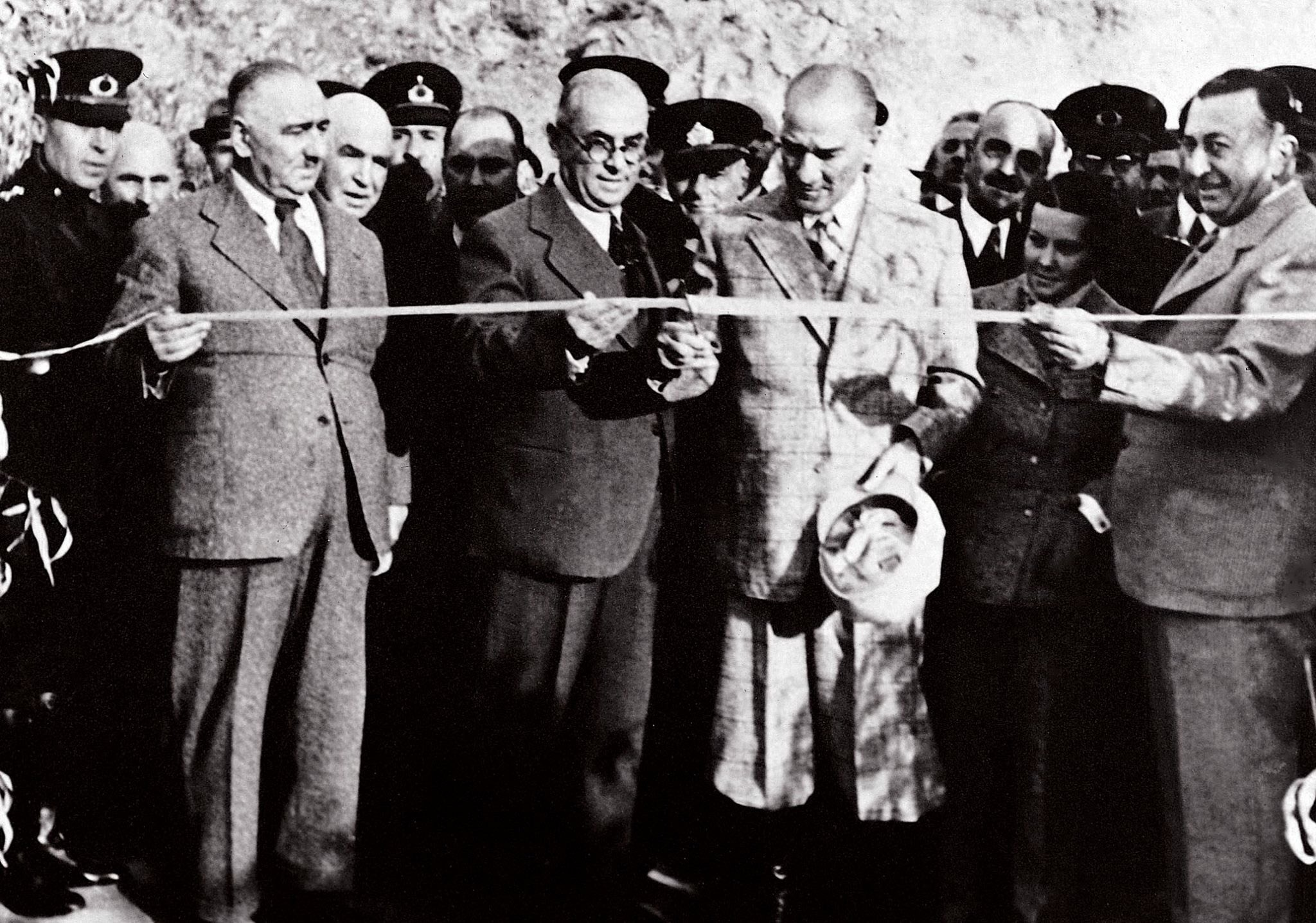 Mustafa Kemal Atatürk, Celal Bayar, Ali Çetinkaya and Sabiha Gökçen at the opening ceremony of Singeç Bridge, Tunceli, 17 November 1937. Kemal Atatürk (or alternatively written as Kamâl Atatürk, Mustafa Kemal Pasha until 1934, commonly referred to as Mustafa Kemal Atatürk; 1881 – 10 November 1938) was a Turkish field marshal, revolutionary statesman, author, and the founding father of the Republic of Turkey, serving as its first President from 1923 until his death in 1938. He undertook sweeping progressive reforms, which modernized Turkey into a secular, industrial nation. Ideologically a secularist and nationalist, his policies and theories became known as Kemalism. Due to his military and political accomplishments, Atatürk is regarded as one of the most important political leaders of the 20th century.